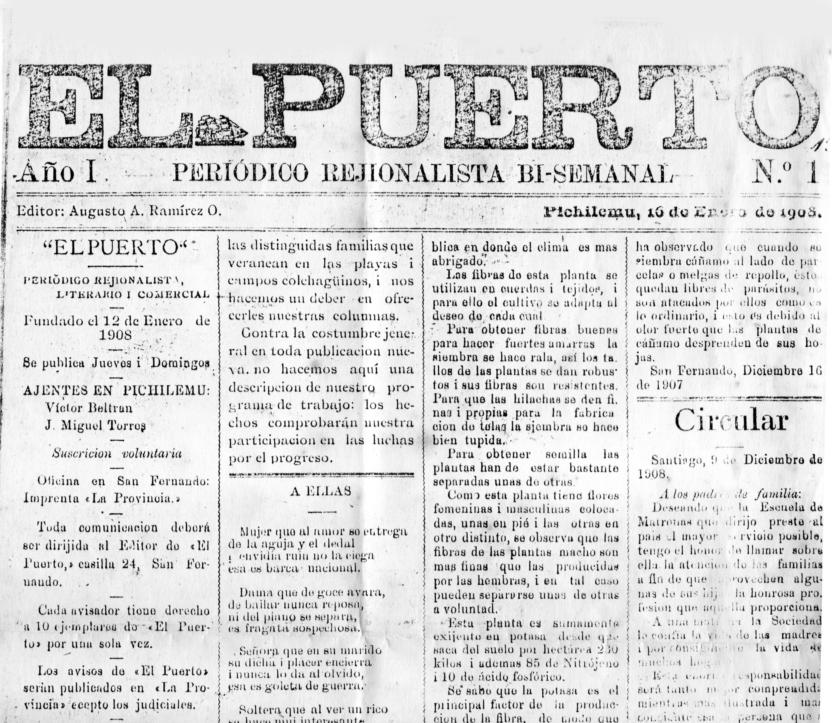 Front page of "El Puerto" newspaper.